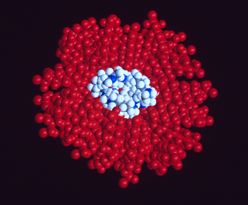 Computer-generated model of perflubron and gentamicin molecules in liquid suspension for pulmonary administration. Image courtesy of TH Shaffer.